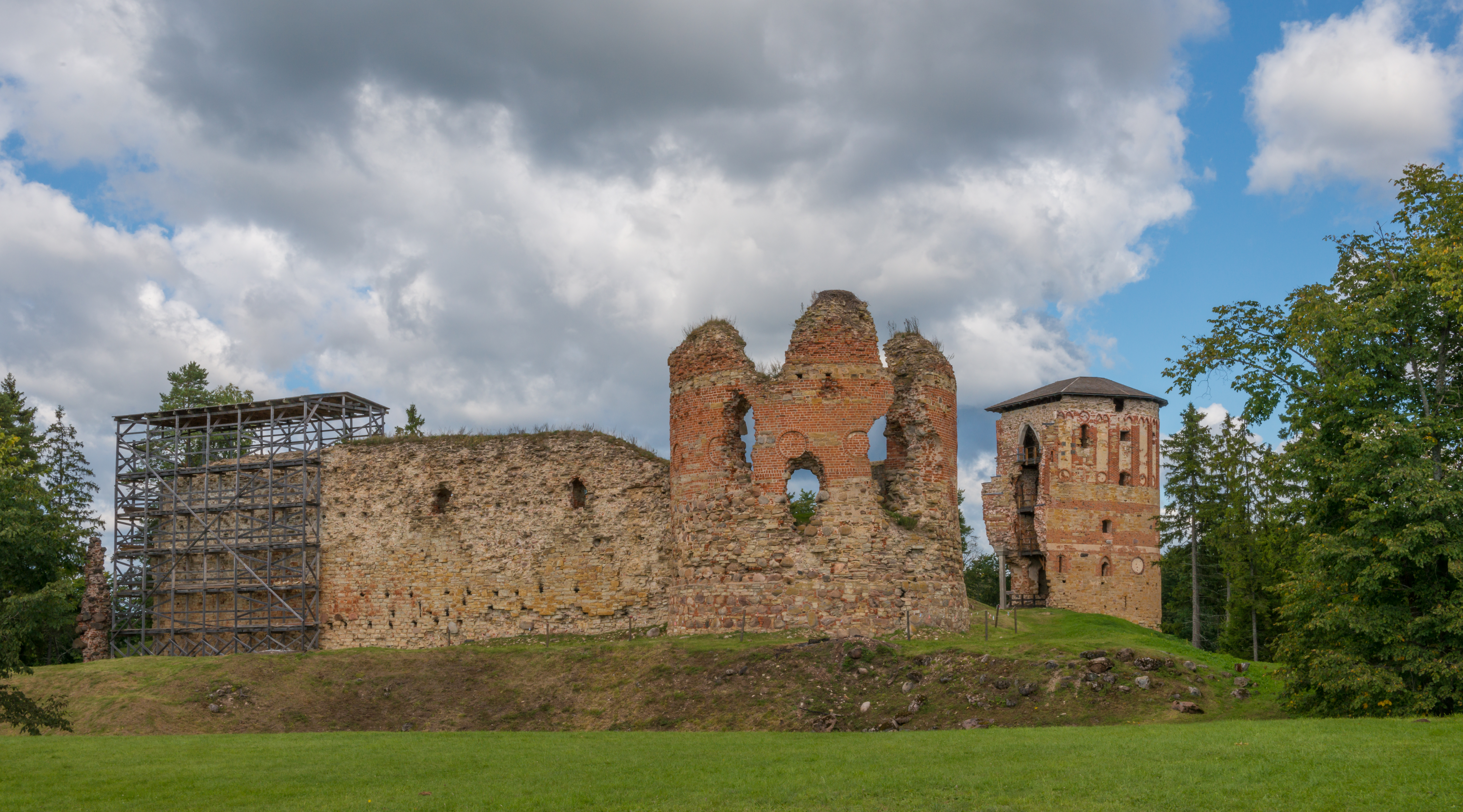 Ruins of Vastseliina Castle form south